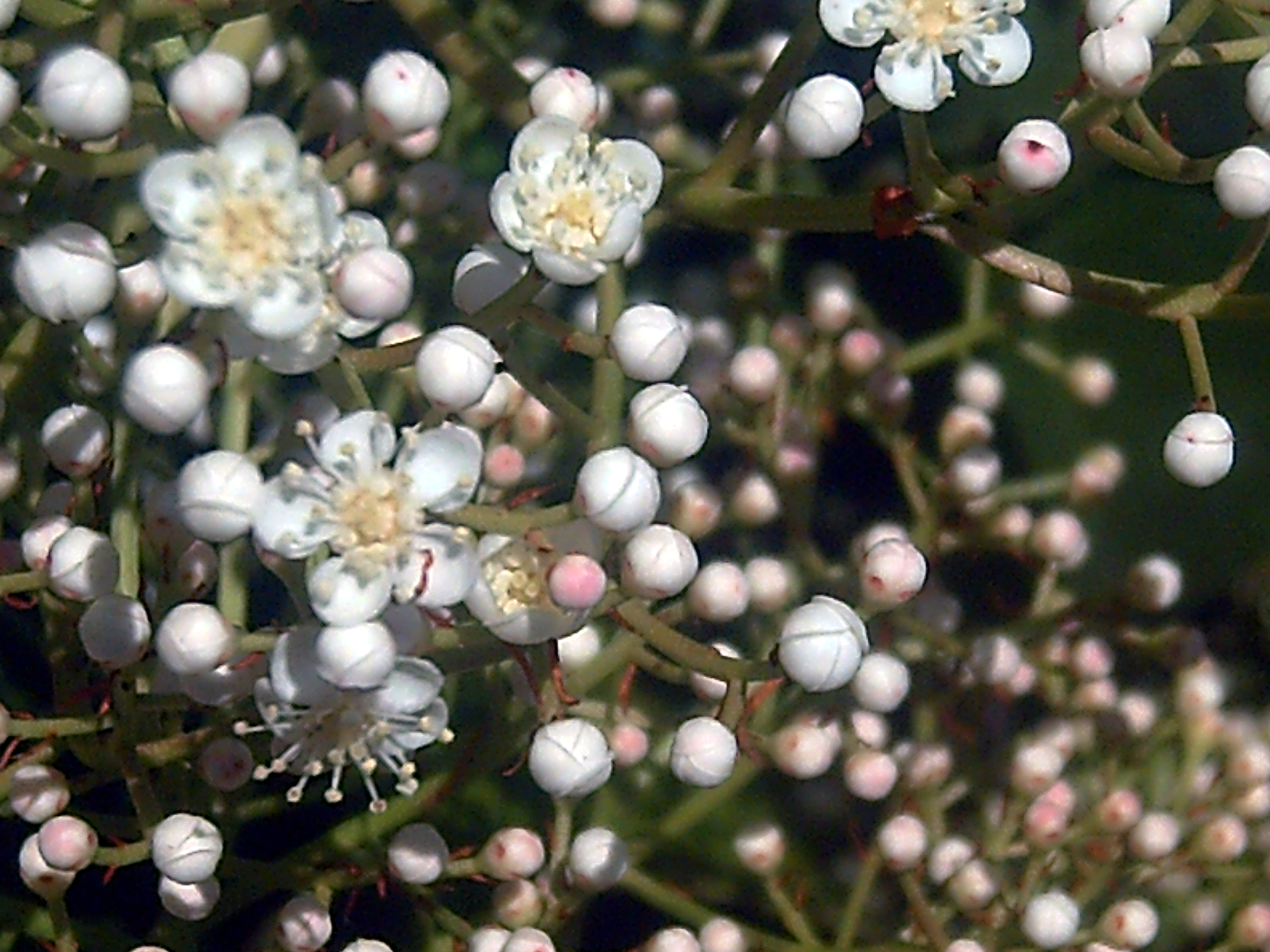 Photinia_serratifolia_Closeup Ciudad Real, Spain.